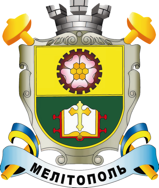 Melitopol (Ukraine) official coat of arms. Officially accepted by local authority on 29.08.2003.